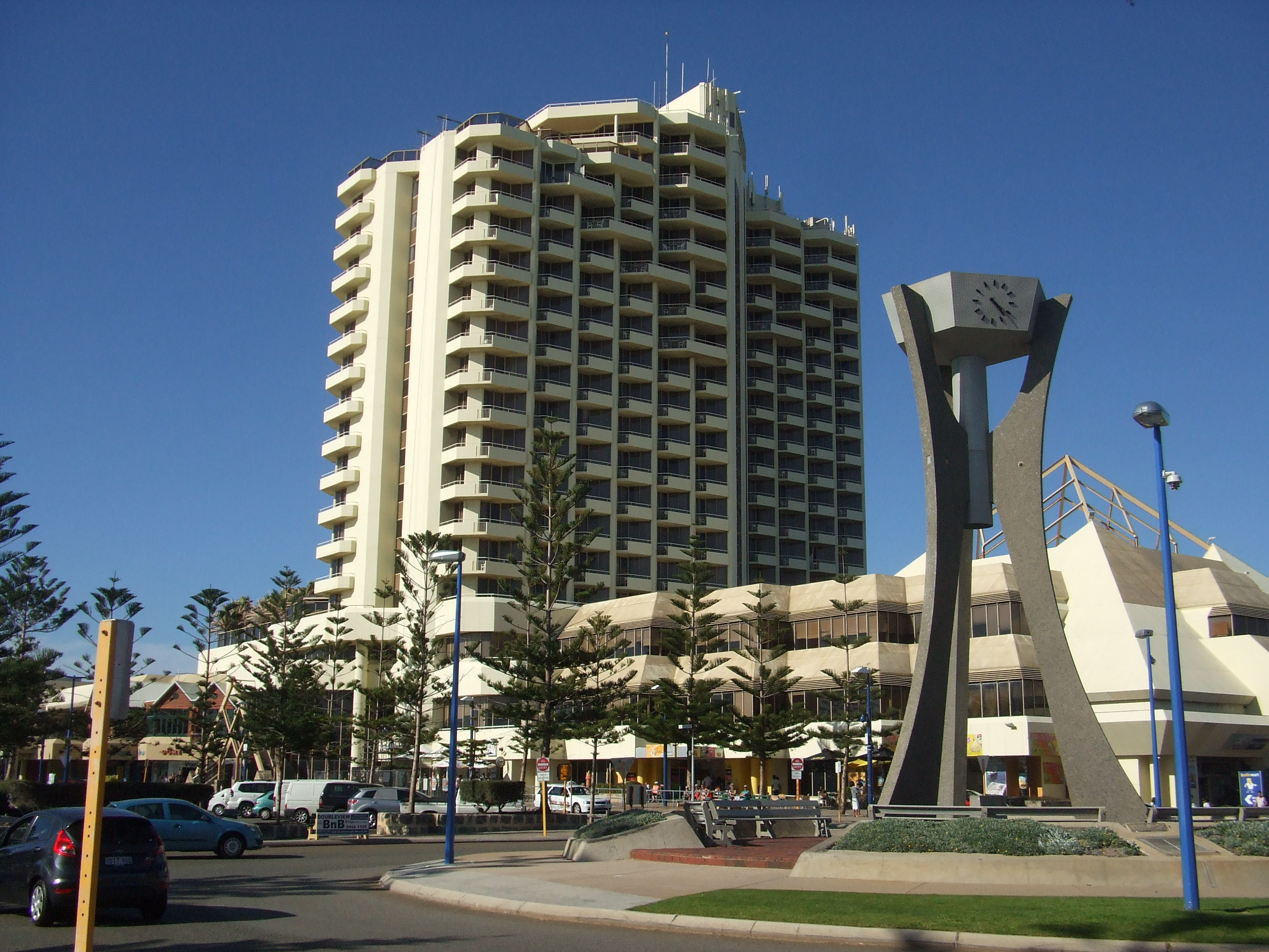 The Rendezvous Observation City hotel tower overlooking The Esplanade at Scarborough Beach.